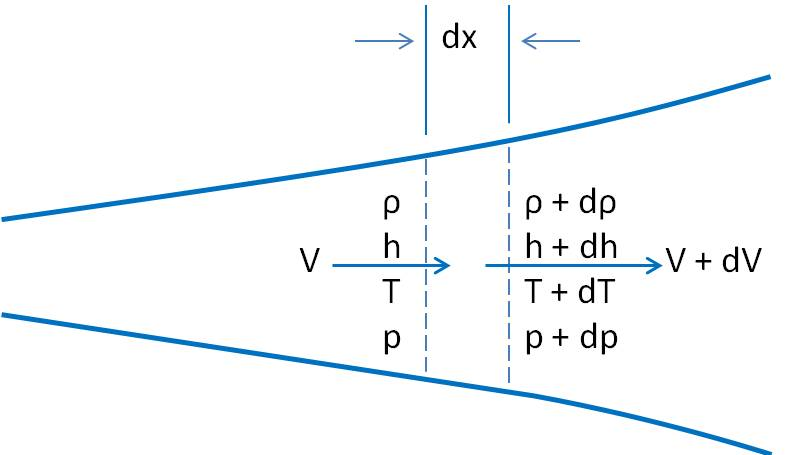 it represents the flow through conduit